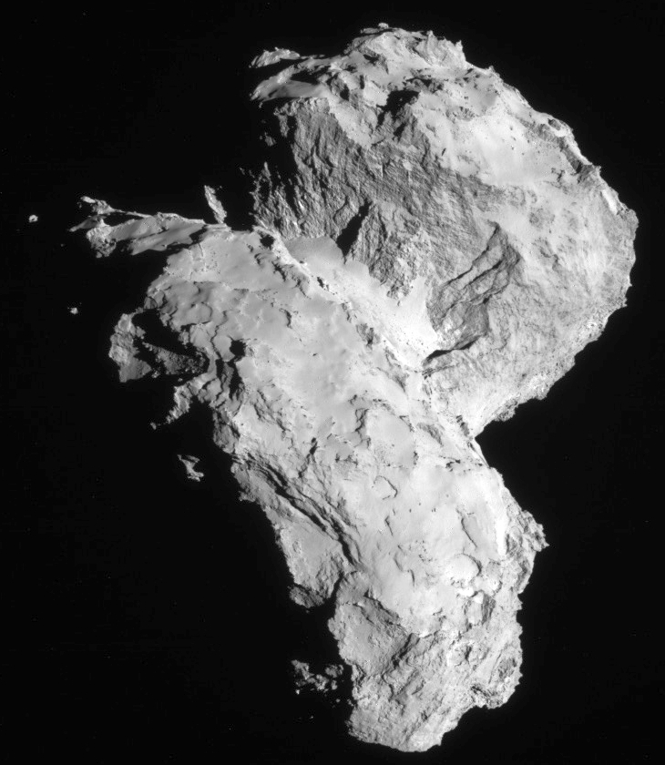 Rosetta navigation camera image taken on 22 August 2014 at about 64 km from comet 67P/Churyumov-Gerasimenko.